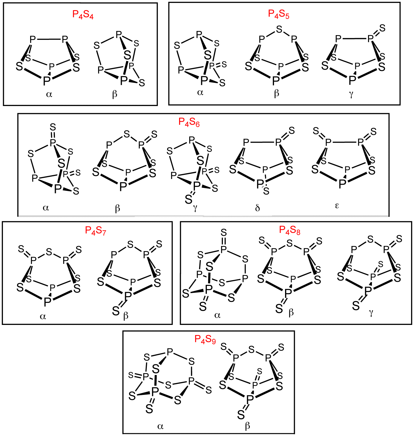 Structures of certain phosphorus sulfide cages